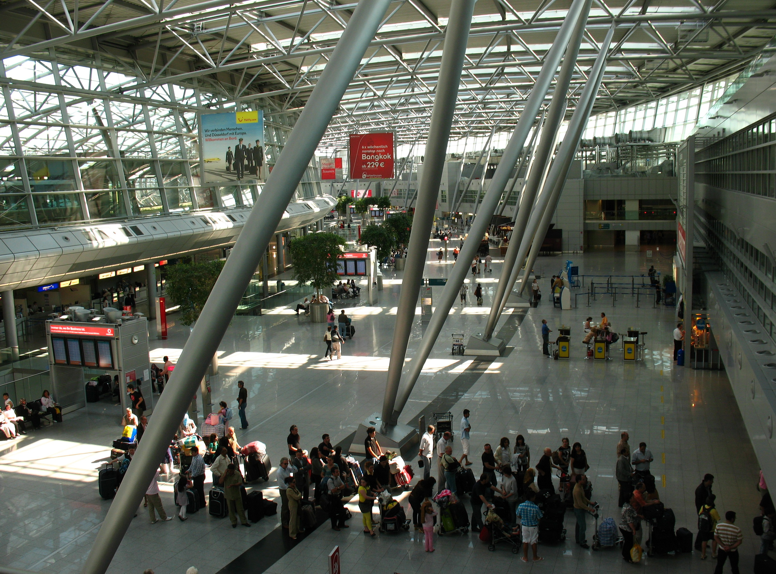 Terminal B check-in area of Dusseldorf Airport (Germany)